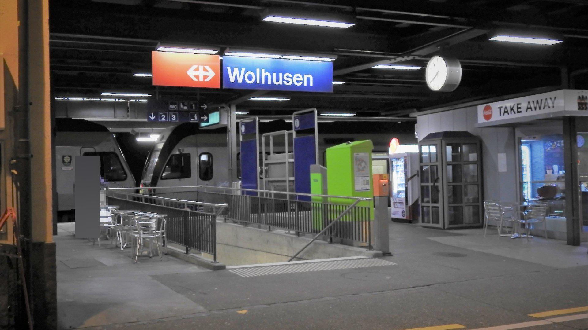 Wolhusen railway station in Wolhusen, Switzerland.